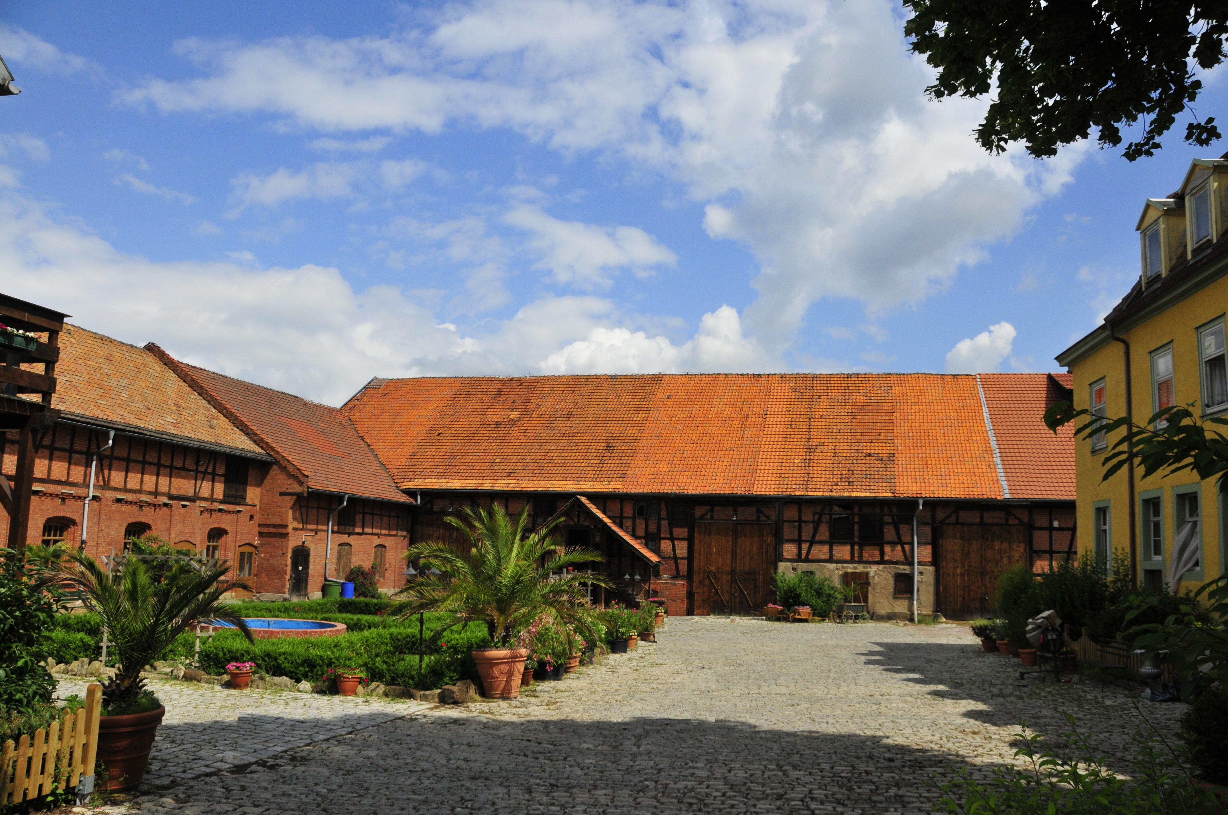 Uelleben, district of Gotha, knight estate